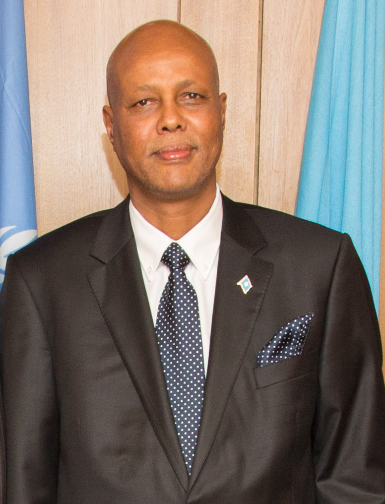 Prime Minister of Somalia Abdiweli Sheikh Ahmed paying a courtesy visit to the ITU headquarters in Geneva.